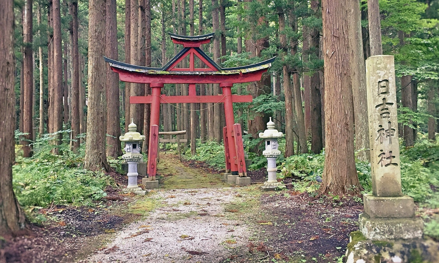 Aomori-ken, Goshogawara-shi, Torii of Goshogawara Hiyoshi Jinja; site of Sannobō ruins